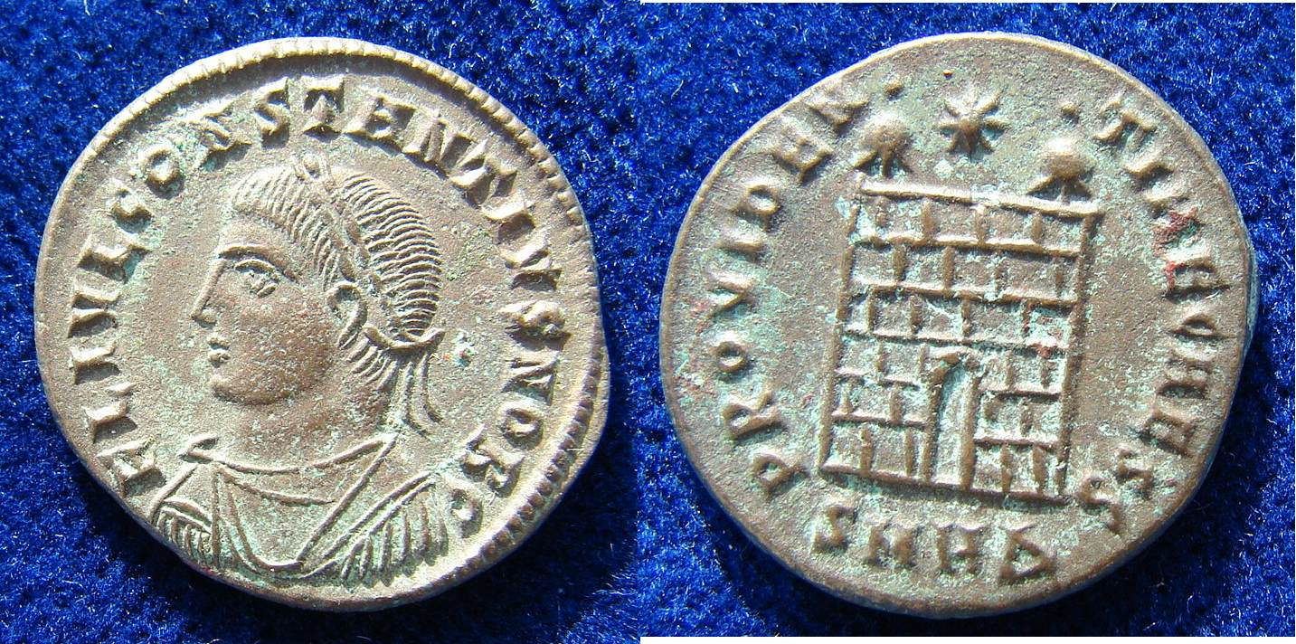 Heraclea Mint (today Turkey). D.= 18 mm. Bronze 2.90 g Constantius II as Caesar, 324 - 337 Laureate, draped & cuirassed bust left, around : "FL IVL CONSTANTIVS NOB C"/ Camp gate with star above two turrets, no doors. 3 stone layers above gate. Around: "PROVIDENTIAE CAESS SMHΔ". RIC VII, 78. Condition: EXTREMELY FINE, with a beautiful old patina.